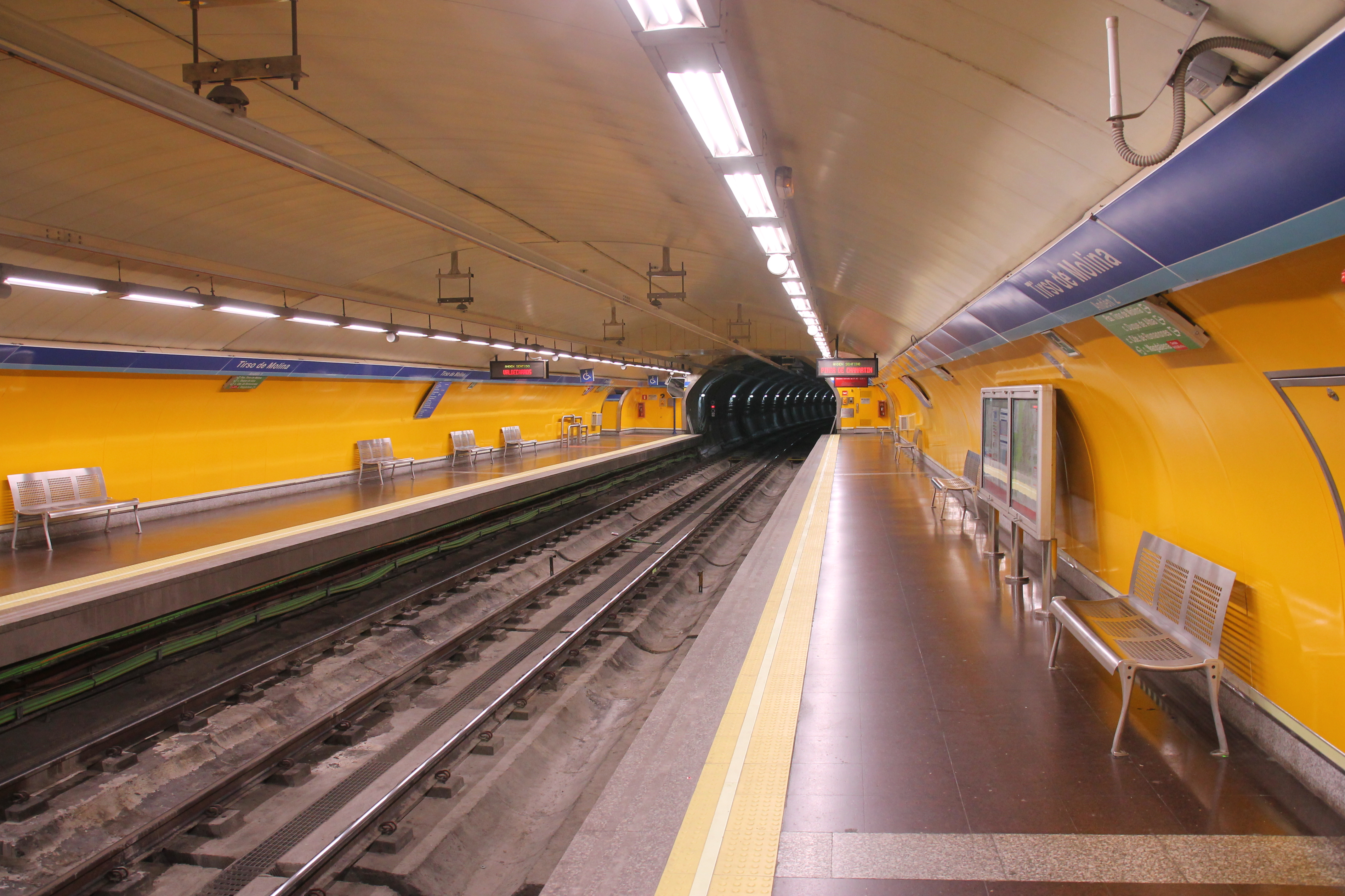 Estación de Tirso de Molina